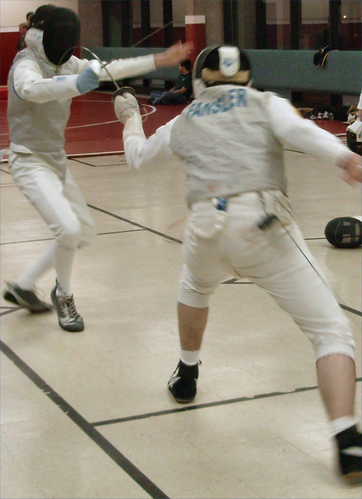 A touch is scored in foil